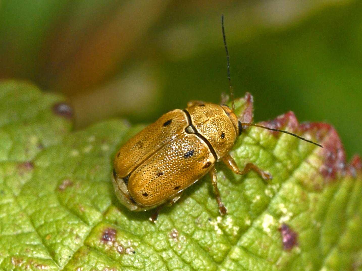 Male of Cryptocephalus octomaculatus. Cerreto Ratti, Alessandria, Italy